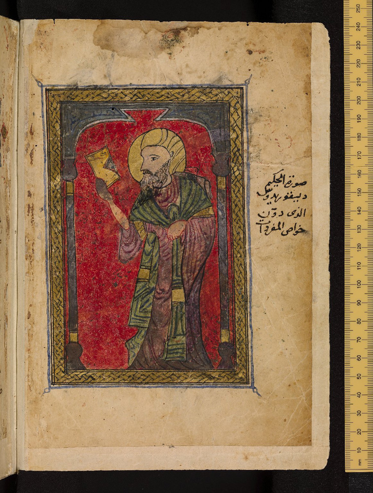 Folio 2b from Shelfmark: MS. Arab. d.138. A later reader has annotated the illustration.